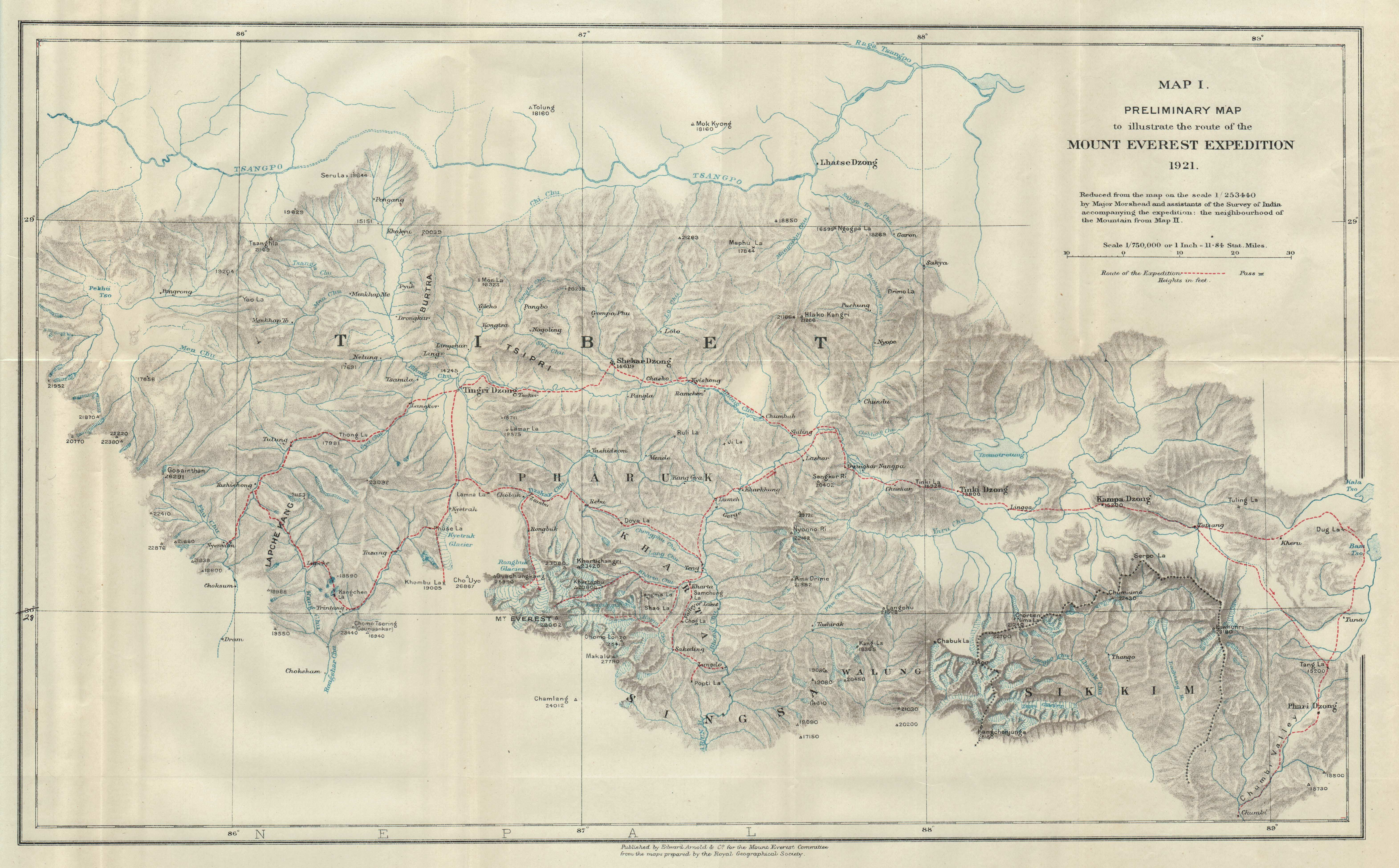 Map I from Howard-Bury, C. K. (1922). Mount Everest the Reconnaissance, 1921 (1 ed.). New York, Longman & Green